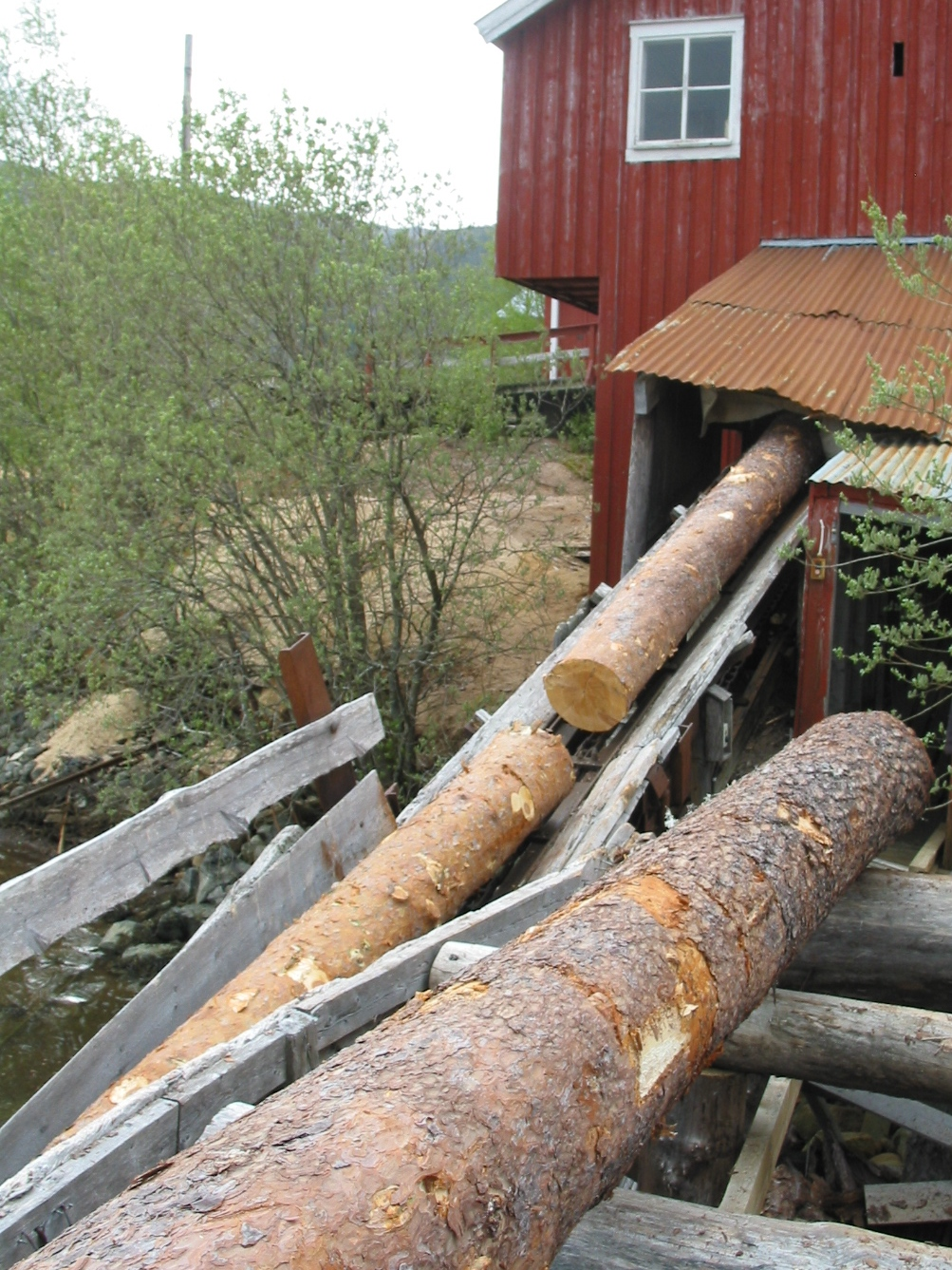 Kjerrat Norsk Sagbruksmuseum, Namsos, Norway